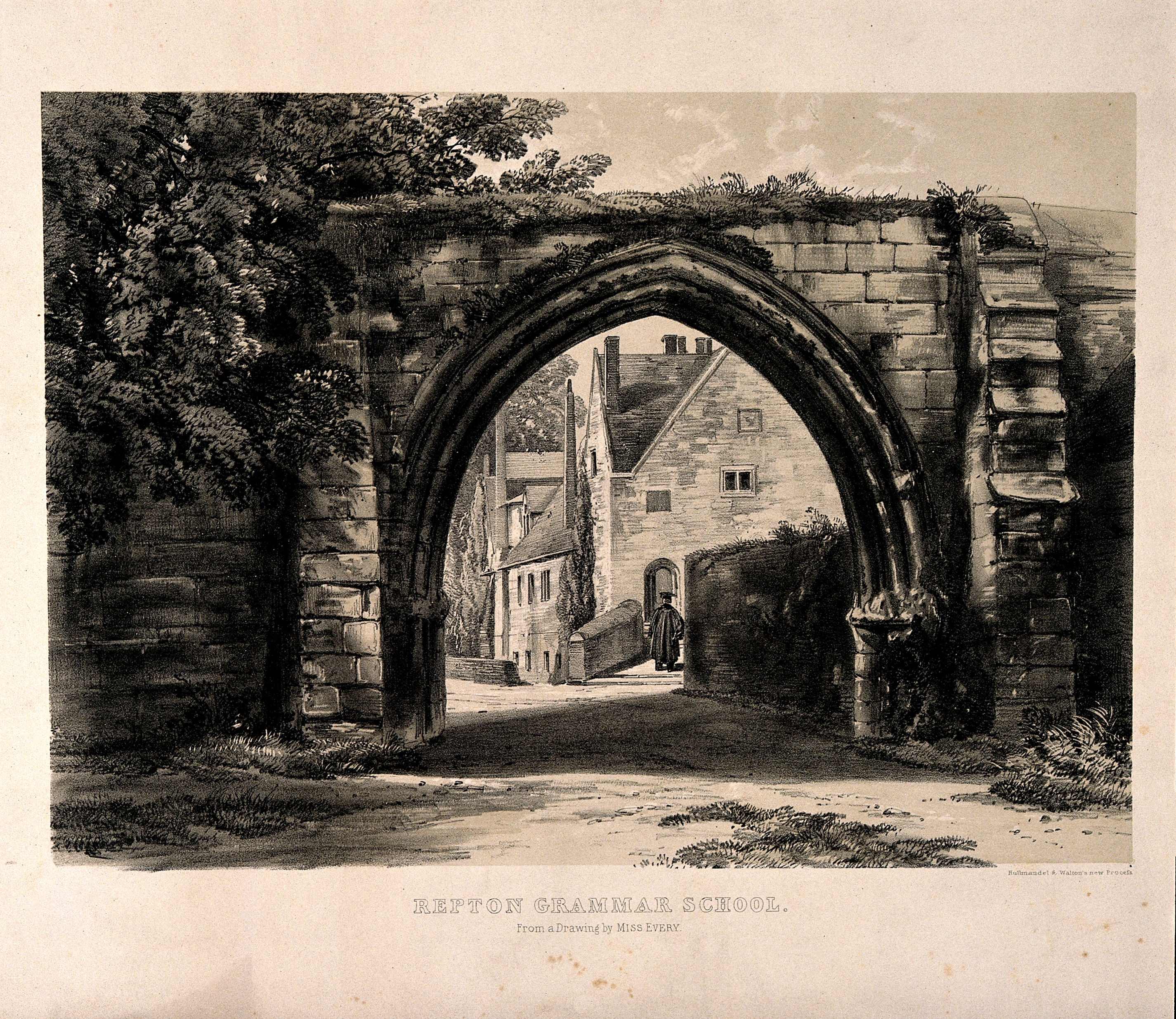 Repton Grammar School, Repton, Derbyshire: gateway. Tinted lithograph by Hullmandel & Walton after Miss Every. Iconographic Collections Keywords: Hullmandel and Walton.; Every